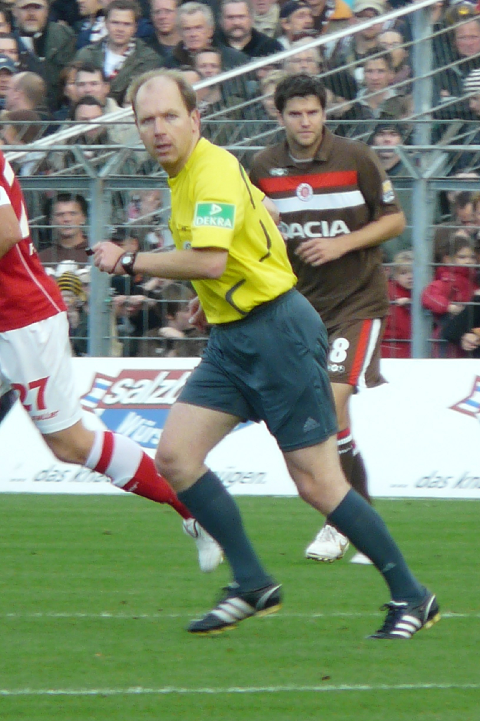 Georg Schalk Referee 2009